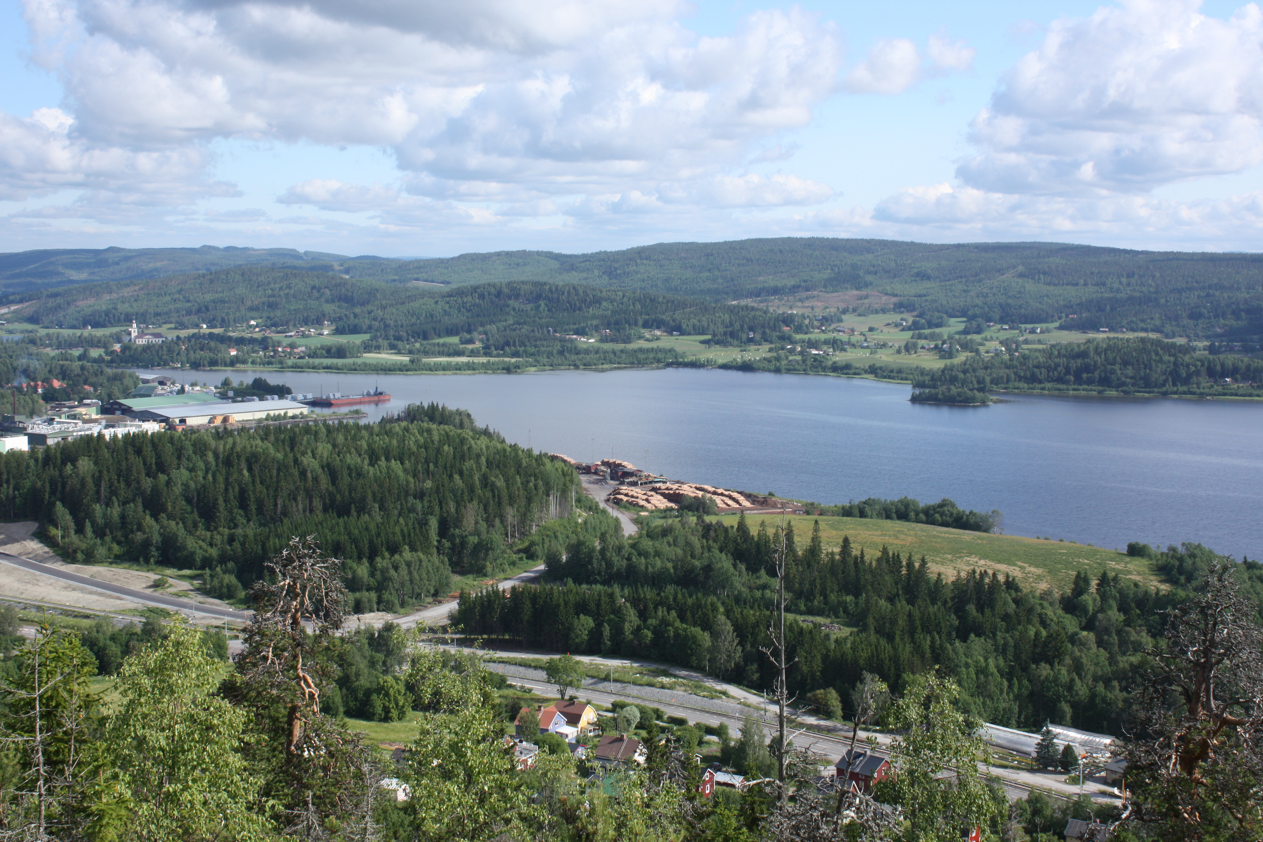 Bollstafjärden, Ytterlännäs församling, Kramfors Municipality, Sweden